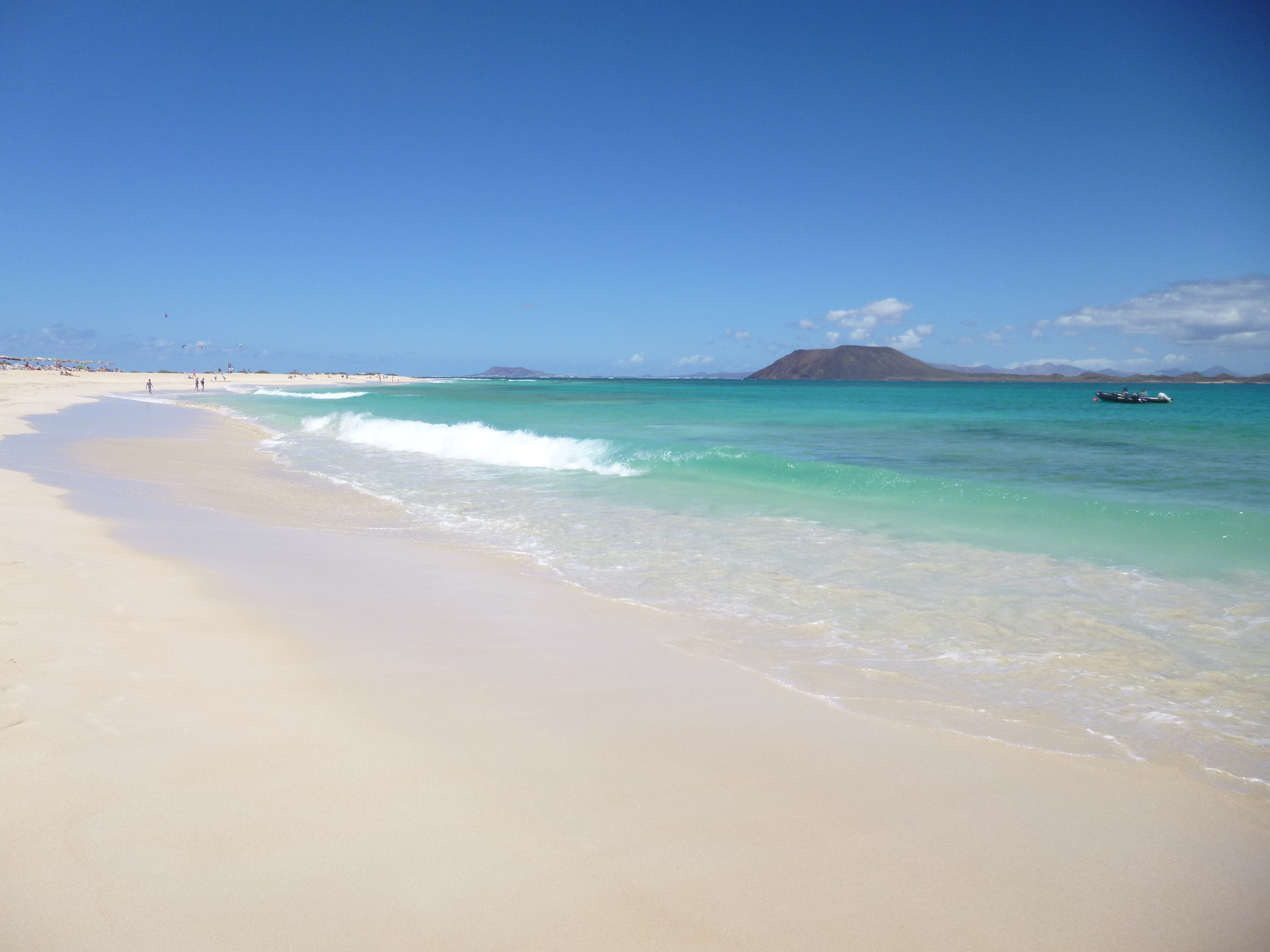 Corralejo Beach, April 2016